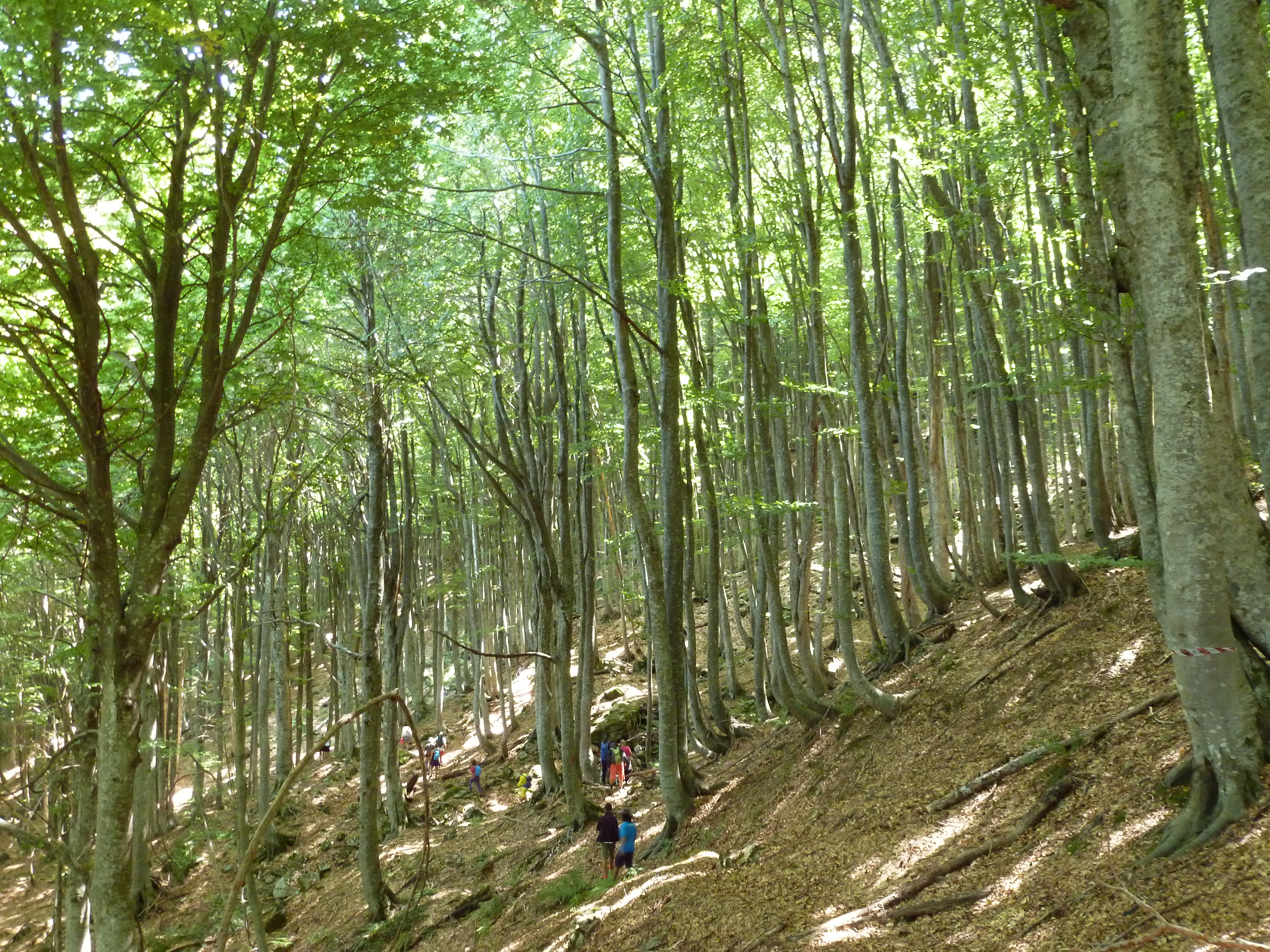 This is a photography of Natura 2000 protected area with ID GR1430001